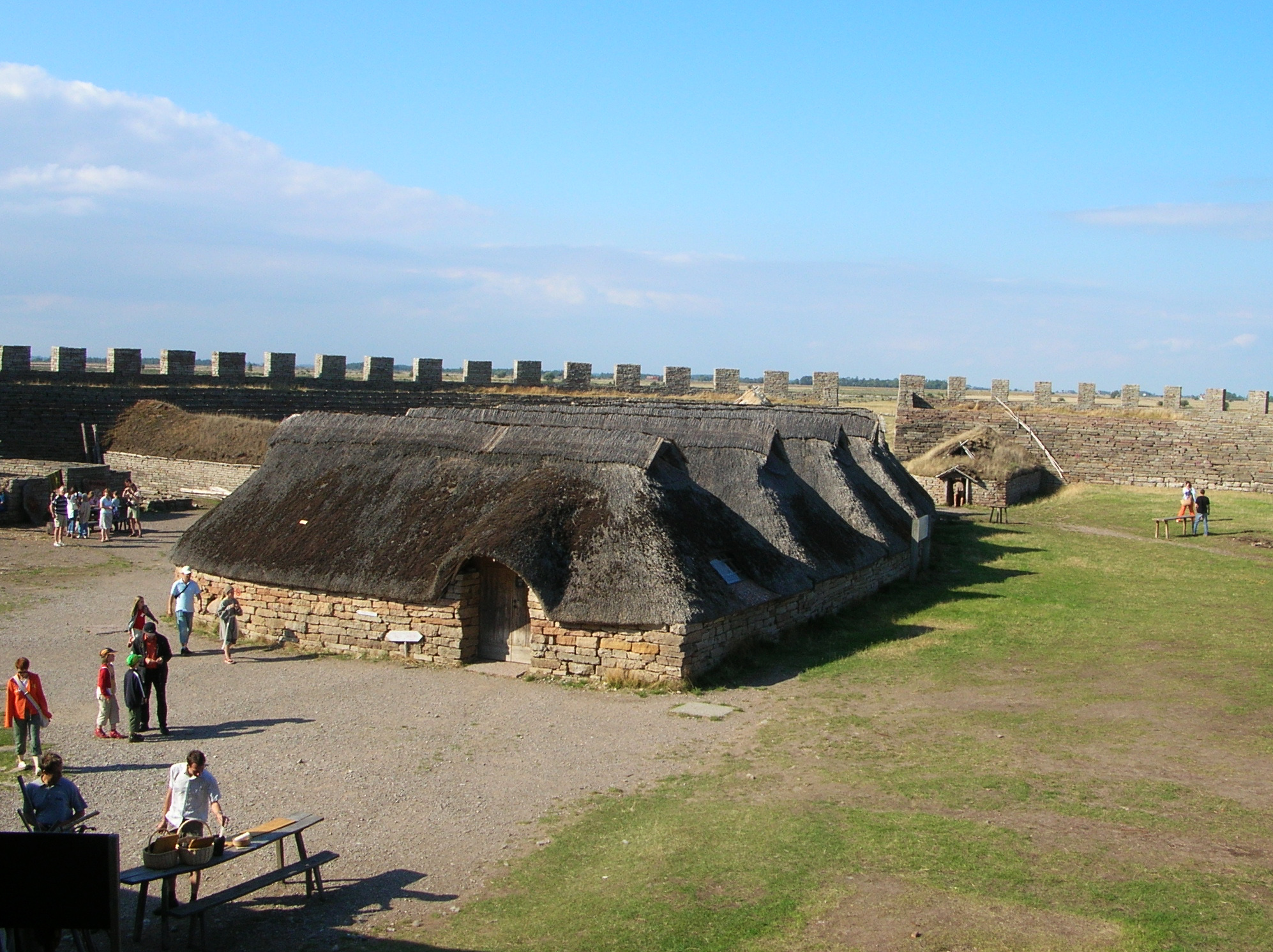 Eketorp fornby / Eketorp ancient village. Island of Öland, Sweden.